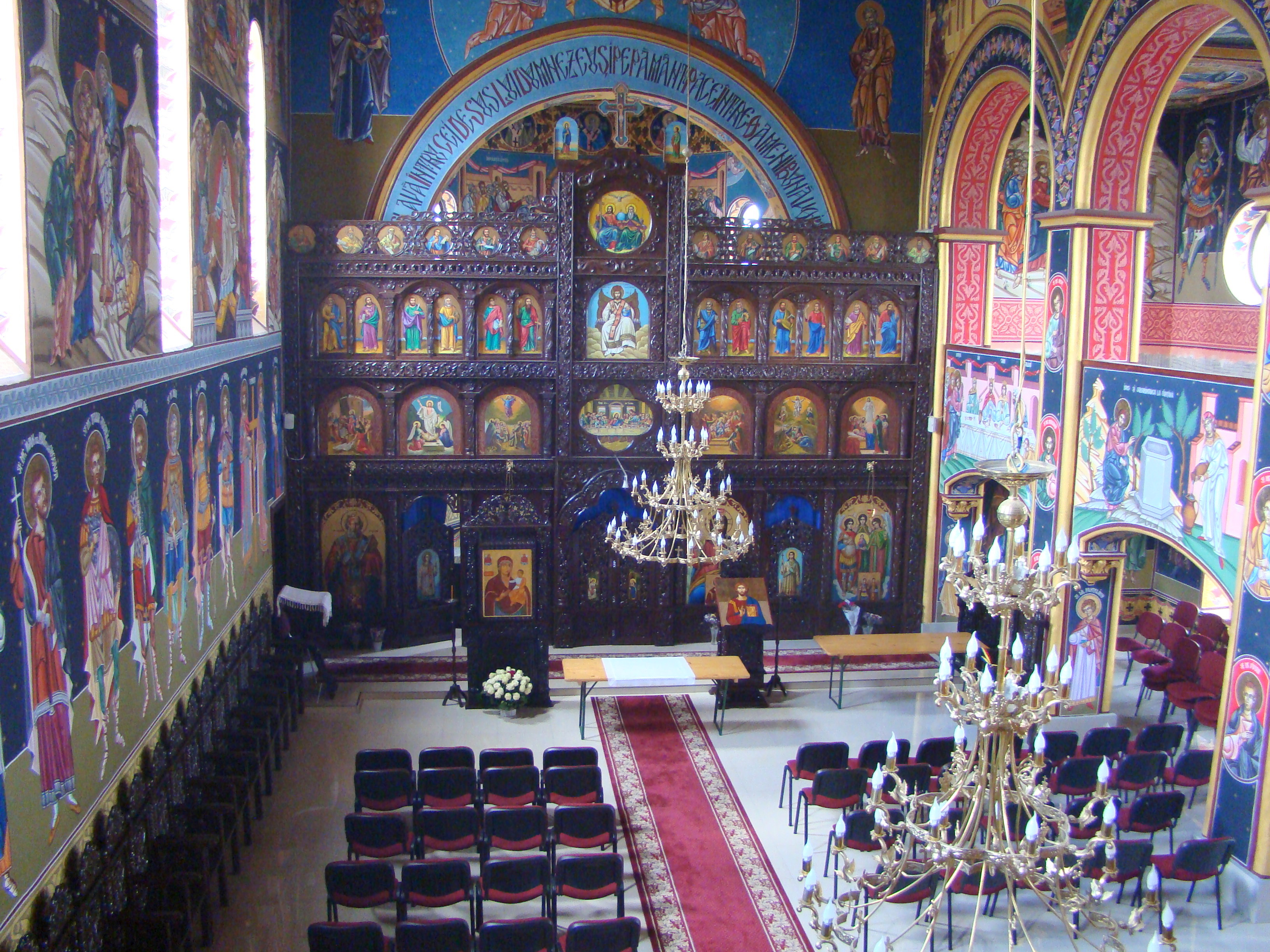 Lutheran church in Domnești, Bistrița-Năsăud county, Romania